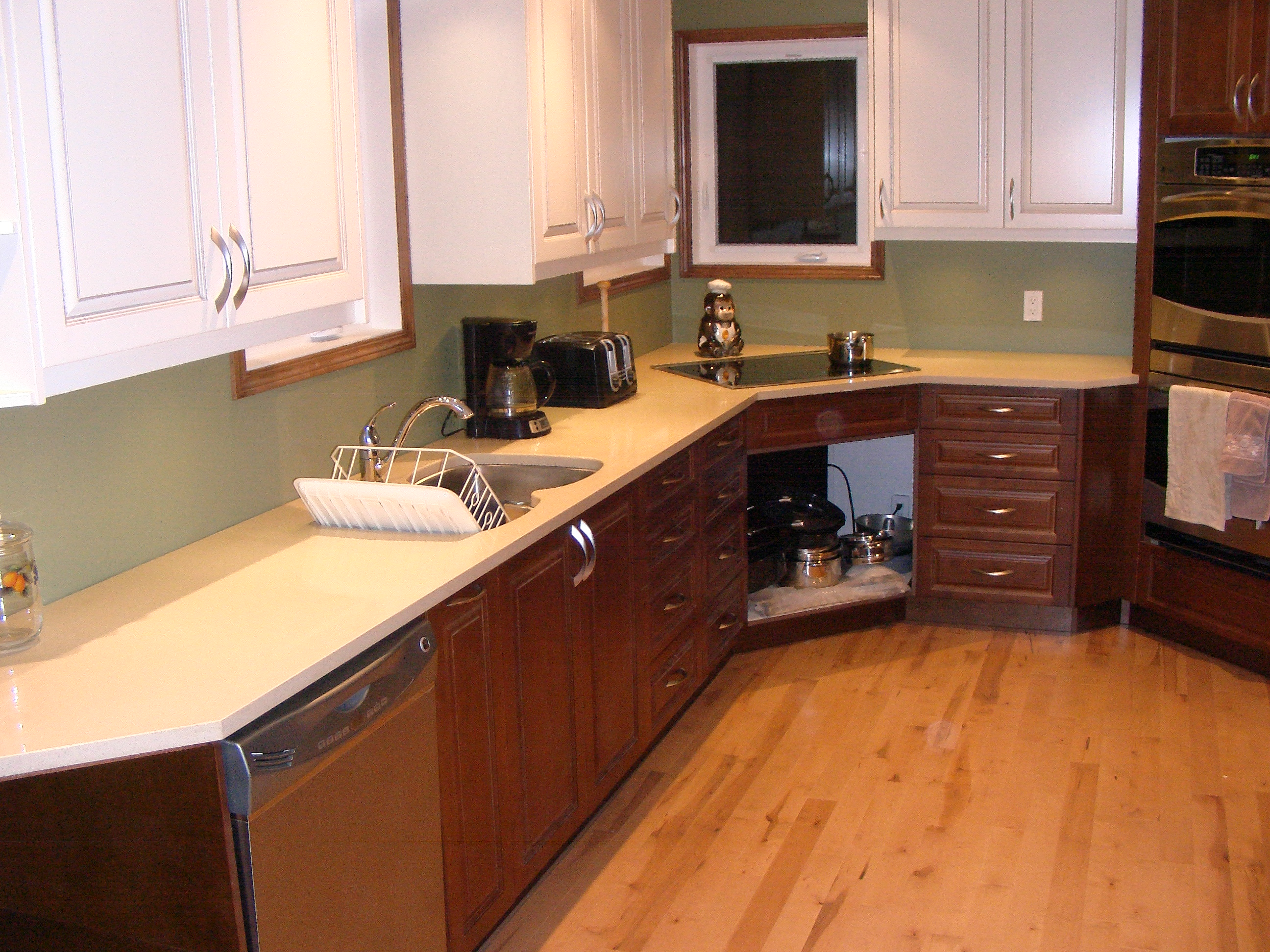 Engineered stone countertops, consisting of quartz particles with plastic binder and coloring agents. Installation in progress. Undermount sink opening is factory cut and polished. Basic opening for cooktop was cut by fabricator, but an additional 1/8 inch was trimmed in field to fit the pop-up vent. Thanks to our contractors for getting this in before Christmas.